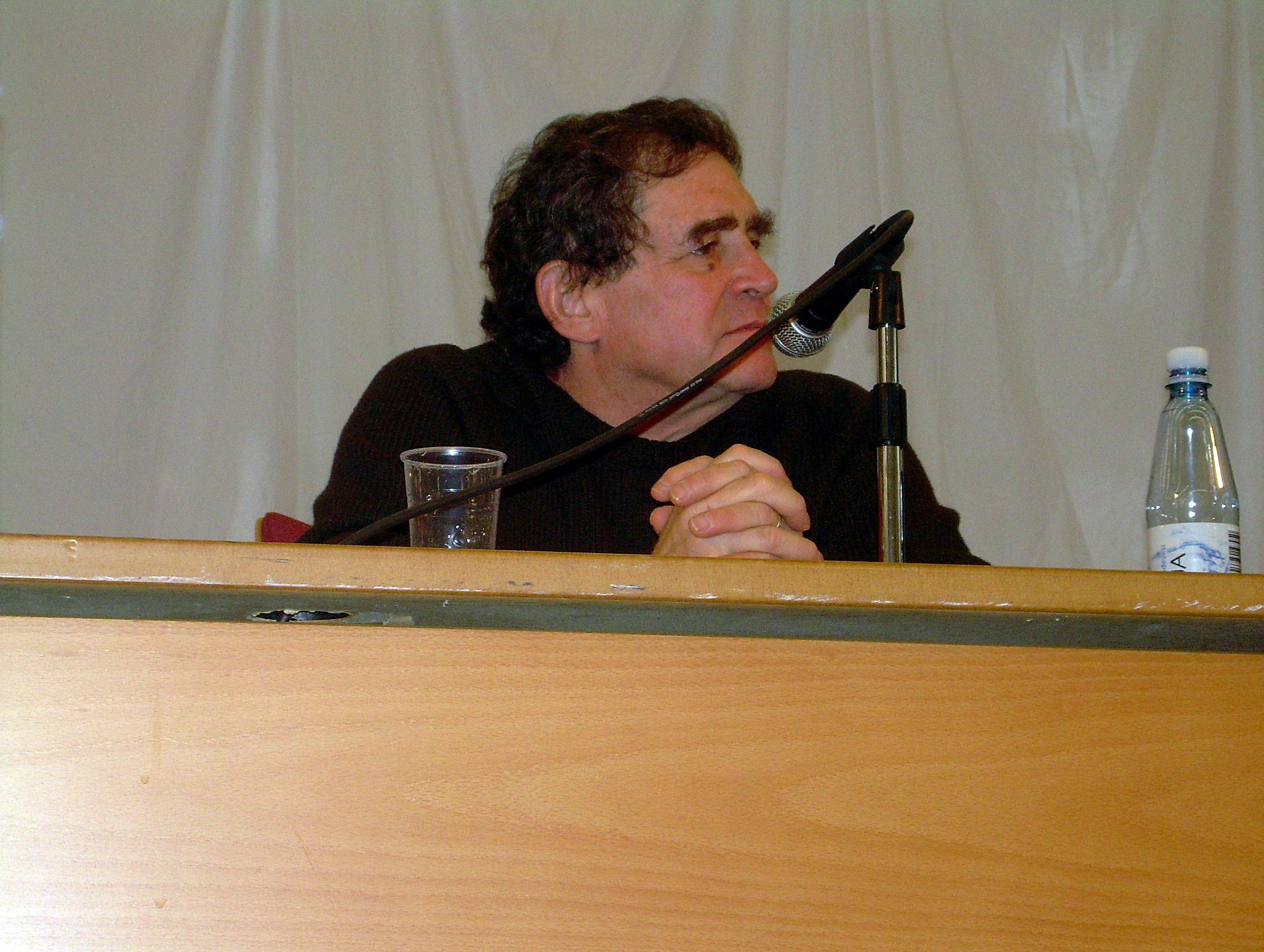 American writer Alan Weisman at the Turku International Book Fair.